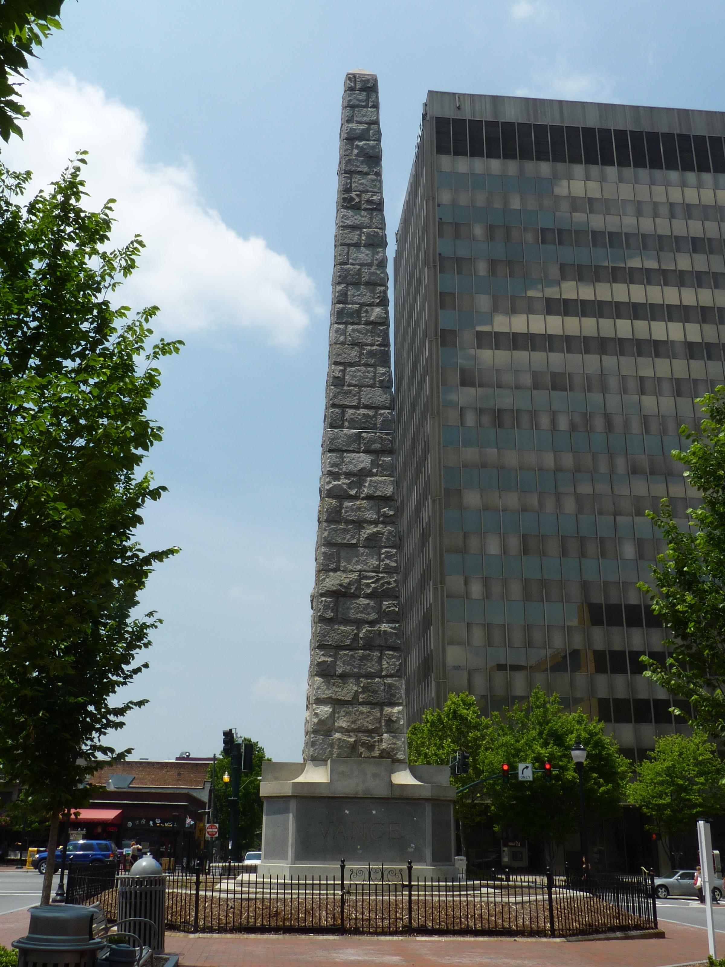 View of Vance monument looking down Patton Avenue.